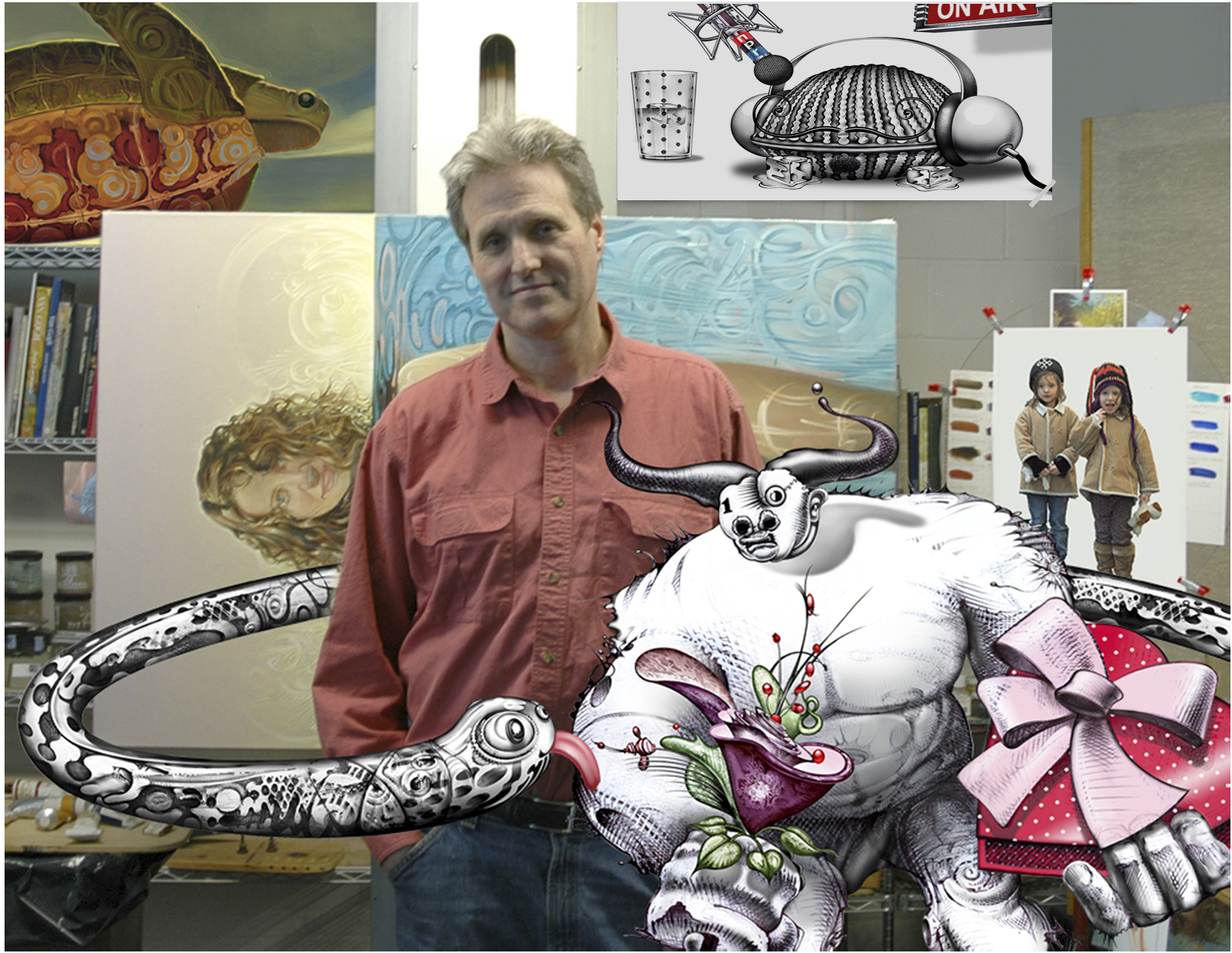 This is a photo of Victor Stabin surrounded by characters created by him.